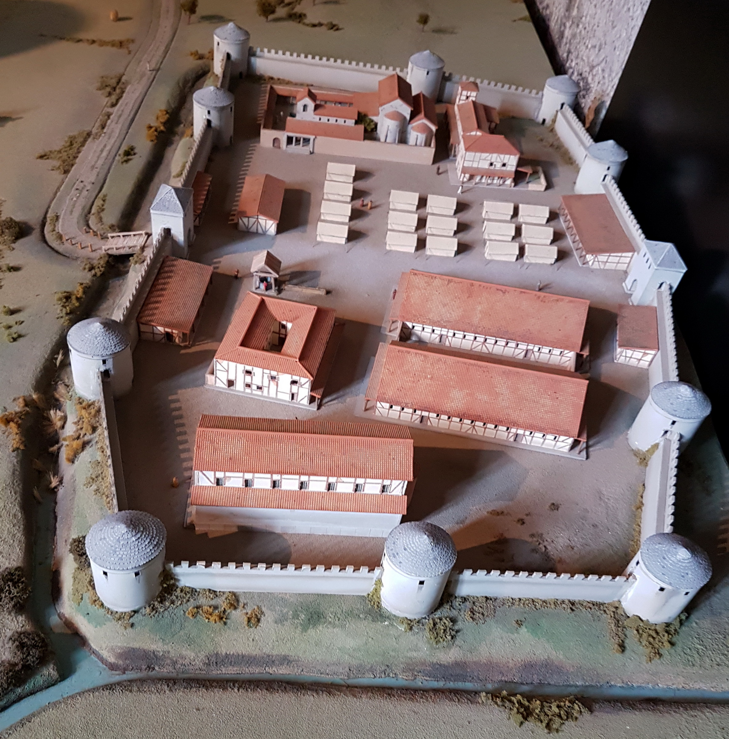 Scale model (A. Schiffeleers, 1992) of the late-Roman castellum of Maastricht. Part of a temporary archaeology exhibition in the east corridor of the cloisters of the Basilica of Saint Servatius in Maastricht, the Netherlands.